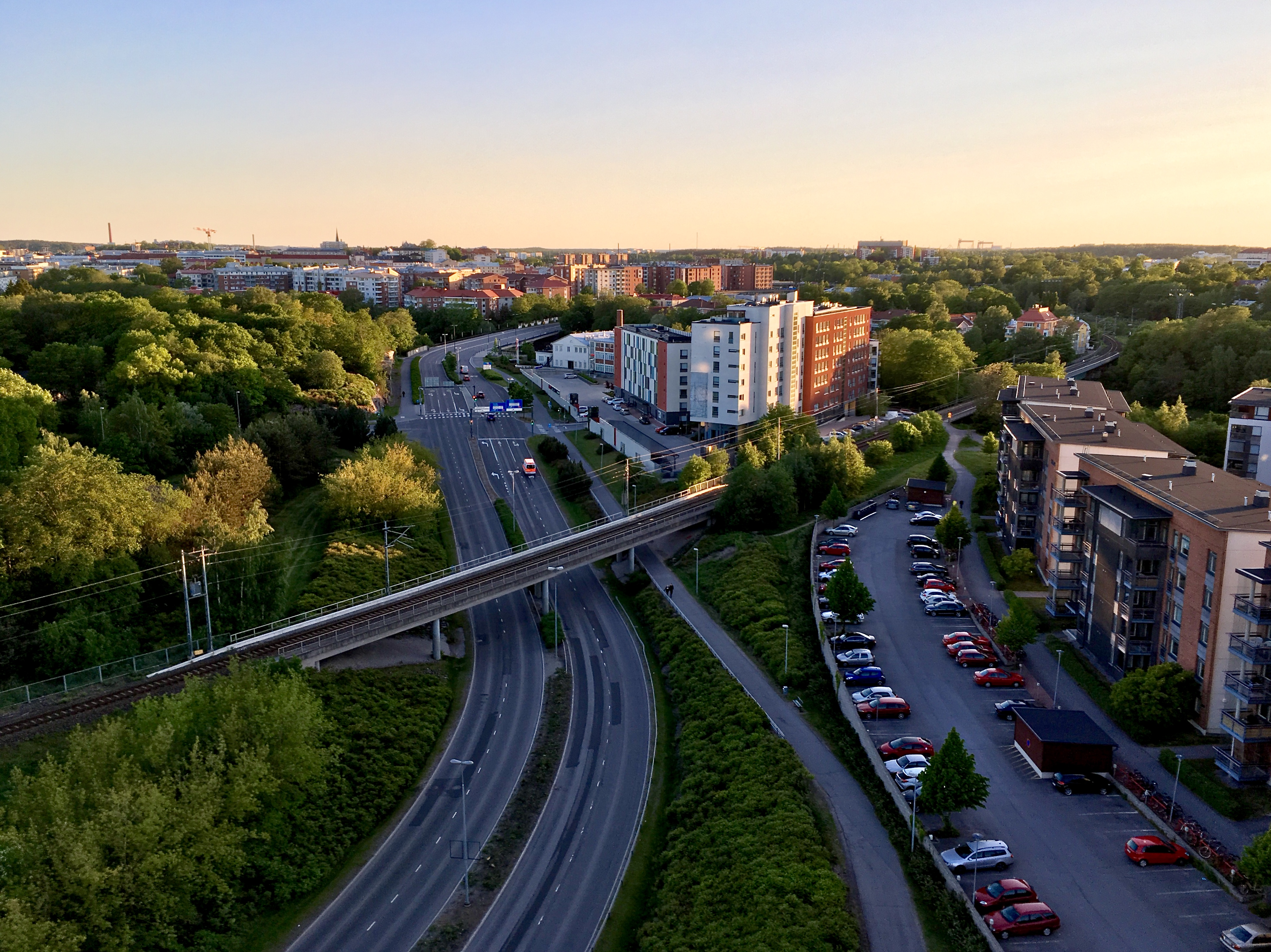 National road 1 crossing Turku seen from Ikituuri.